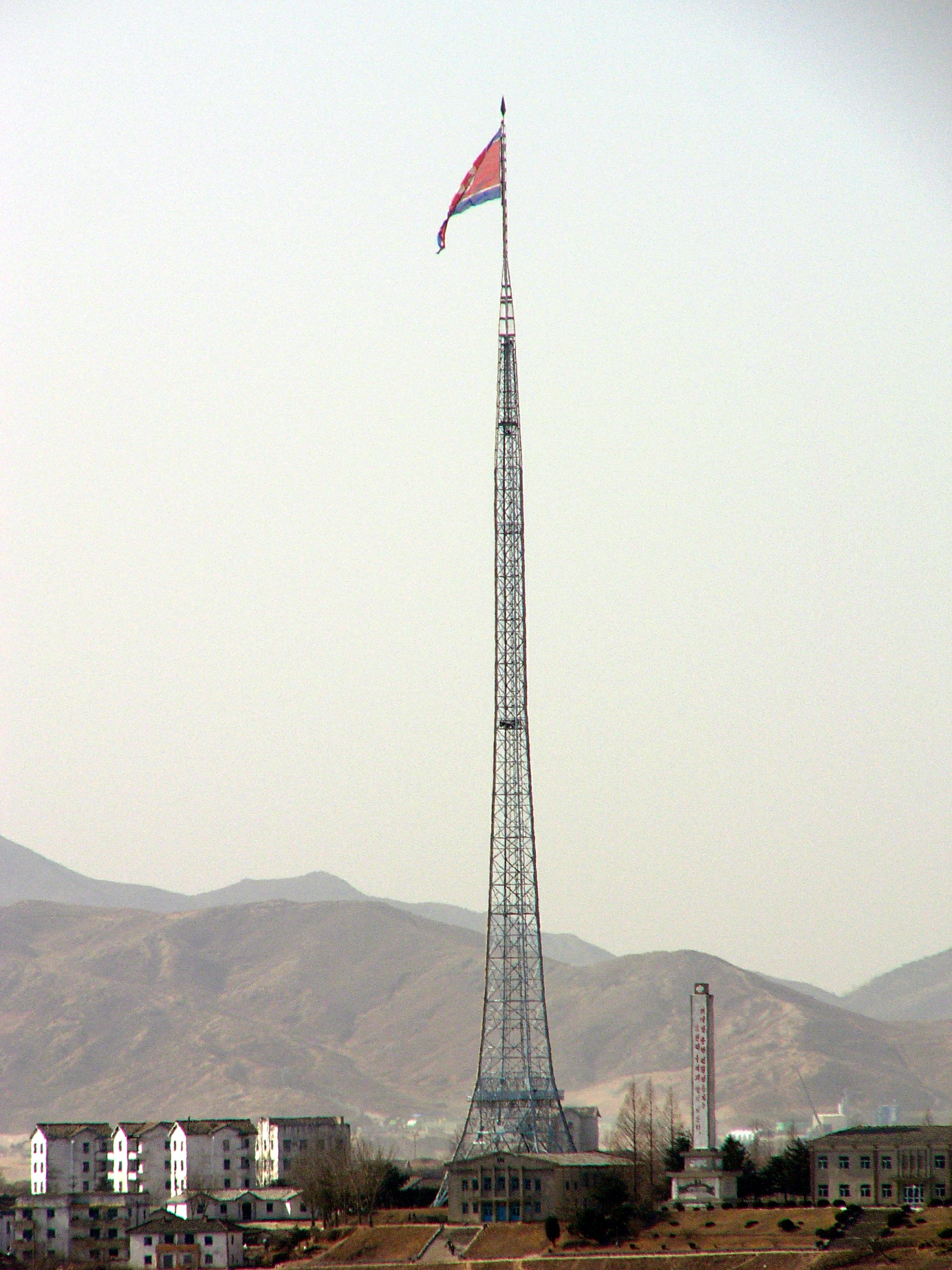 The world's third-tallest flagpole, flying the North Korean flag over Gijeong-ri, near Panmunjeom Based on image:Panmunjeom north flagpole 2005 02 02.jpg - colour normalised